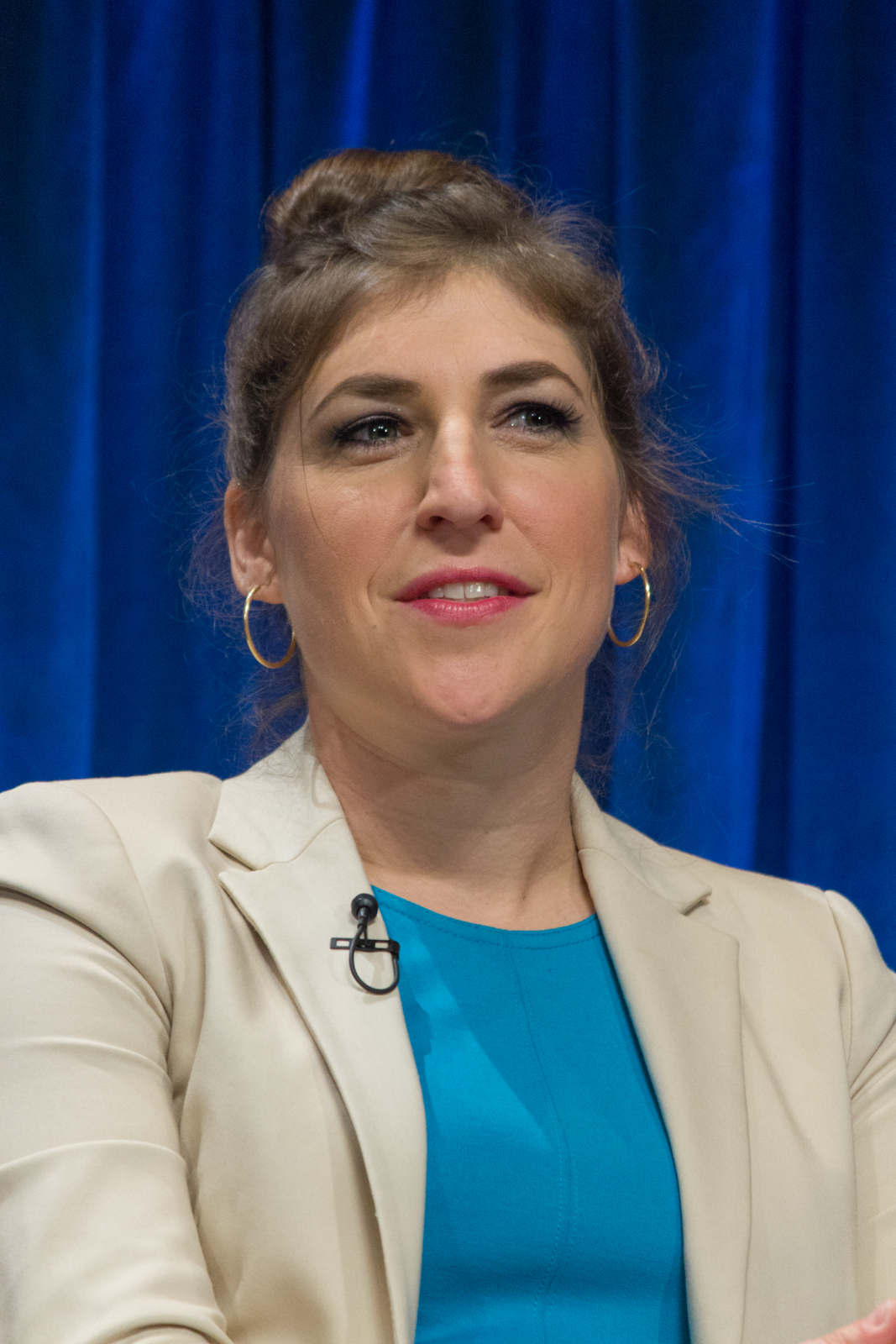 Mayim Bialik at PaleyFest 2013 for the TV show "Big Bang Theory"